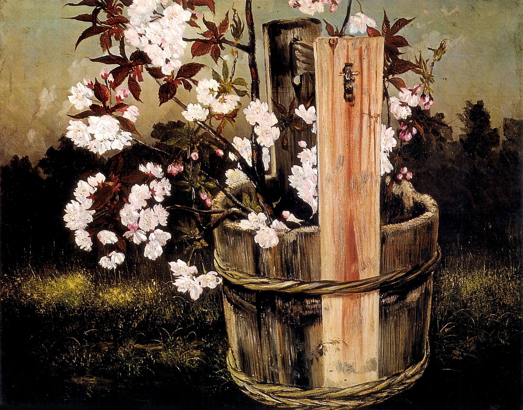 Takahashi "Flower basket"